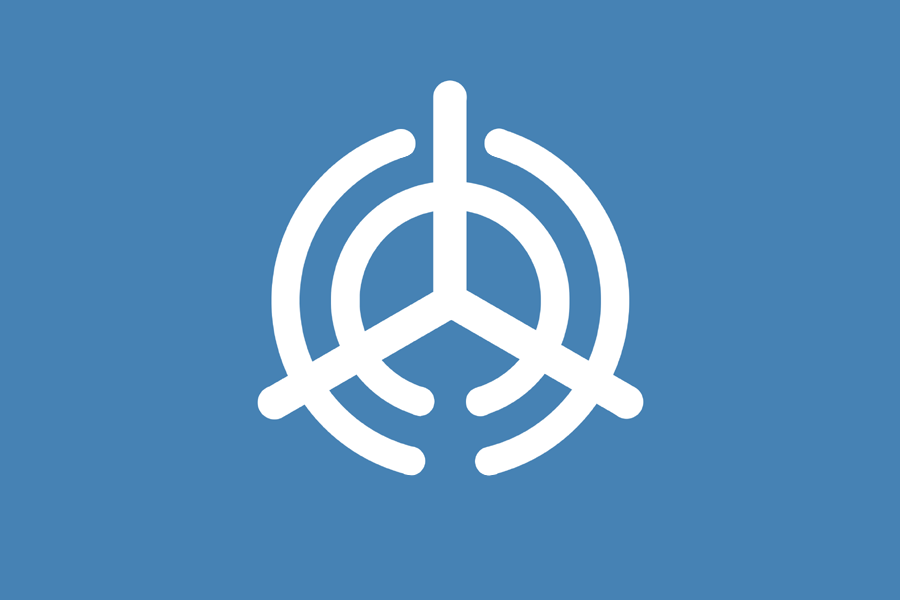 Flag of Oita, Oita